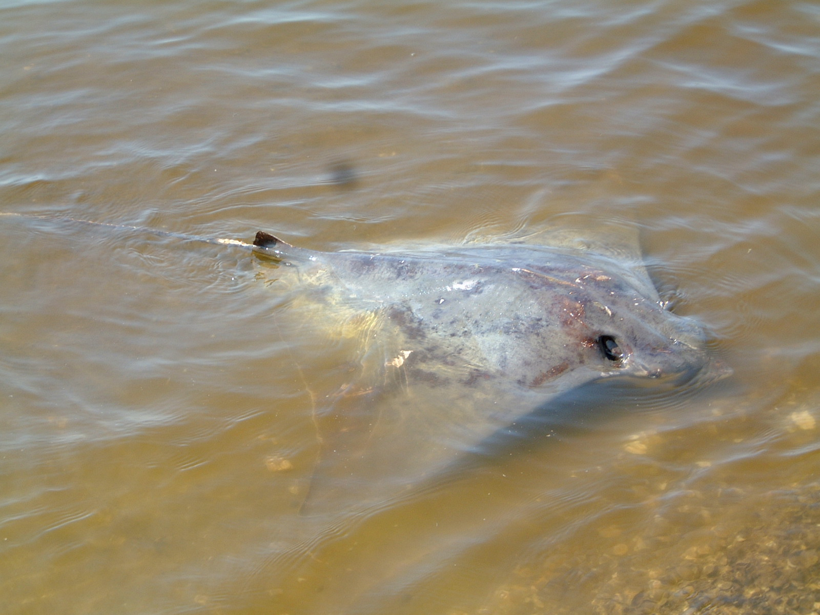 Japanese eagle ray (Myliobatis tobijei) in Isahaya Bay, during red tide